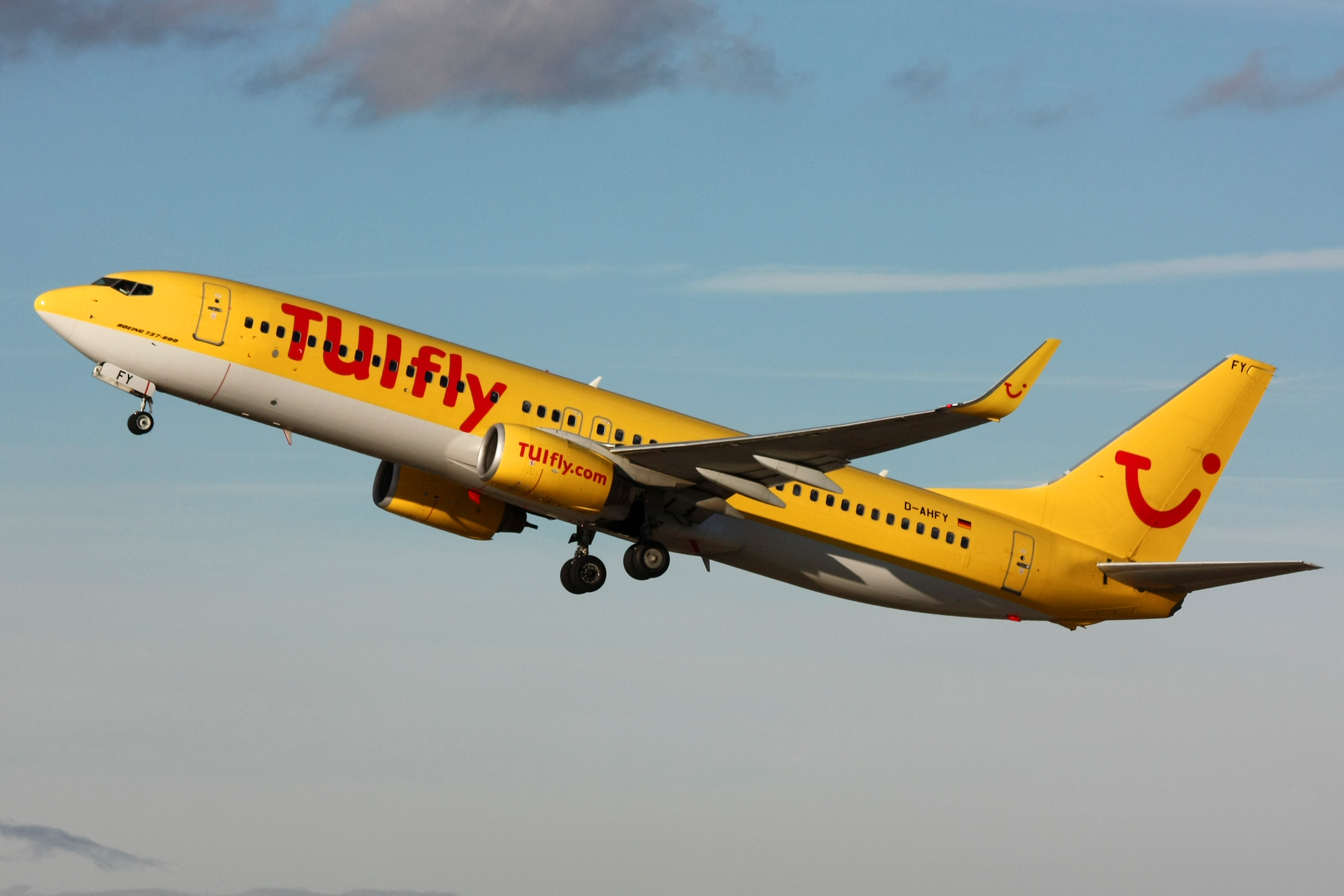 TUIfly Boeing 737-800 D-AHFY takes off at Stuttgart Airport